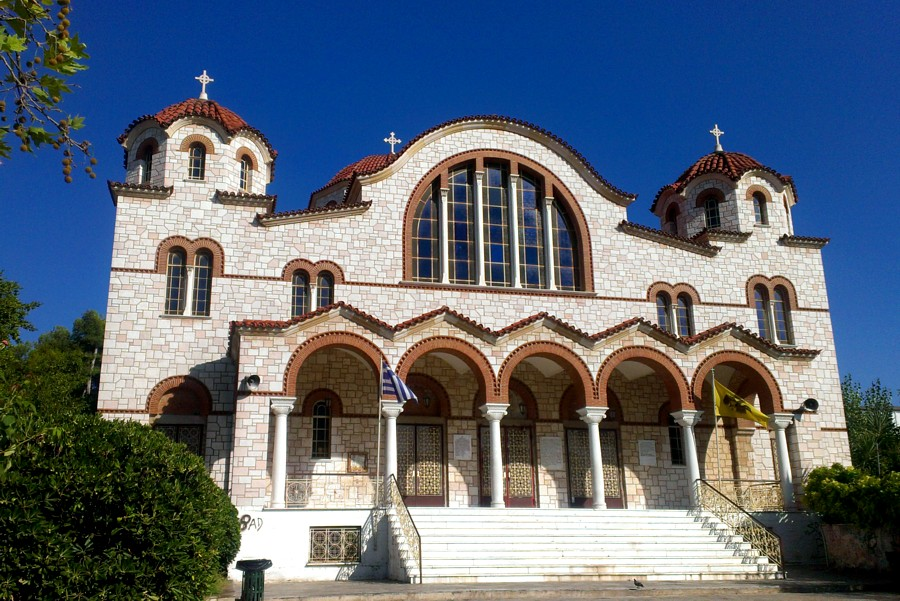 evagelistria